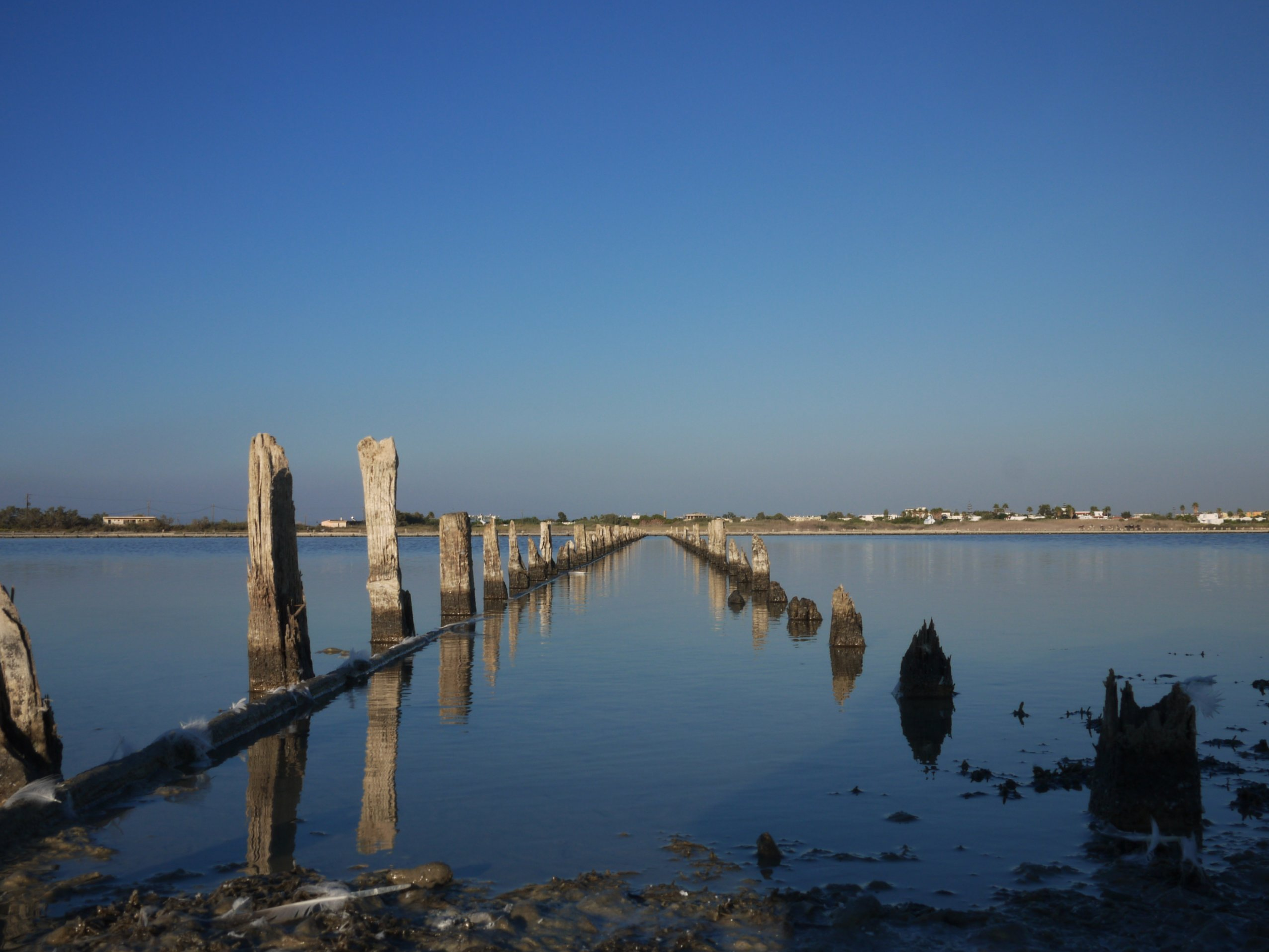 Alikes Salt Lake at Tigaki on the Greek island of Kos